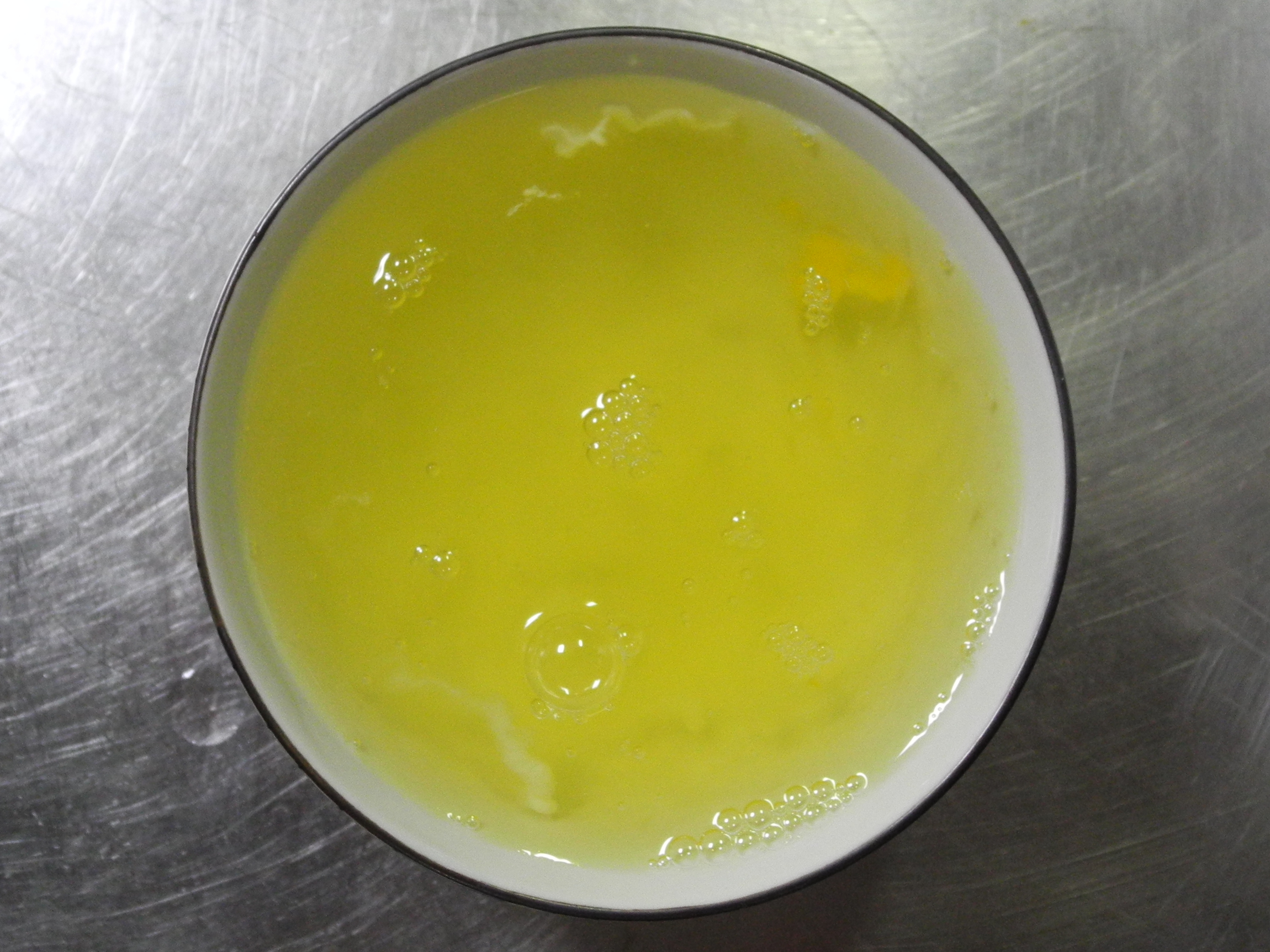 A bowl of egg whites, 6 medium eggs' worth.